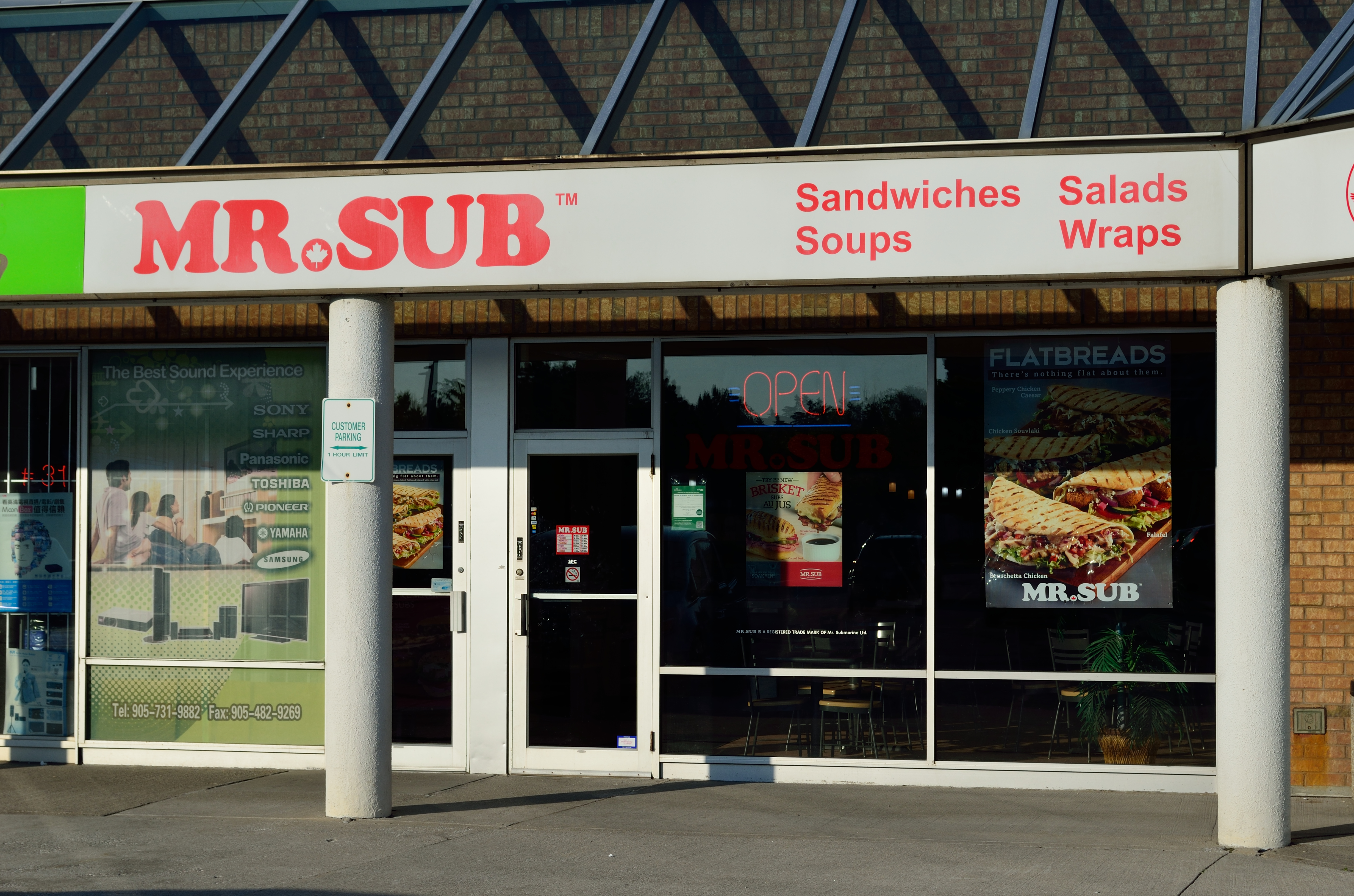 A Mr. Sub at 420 Highway 7 East.